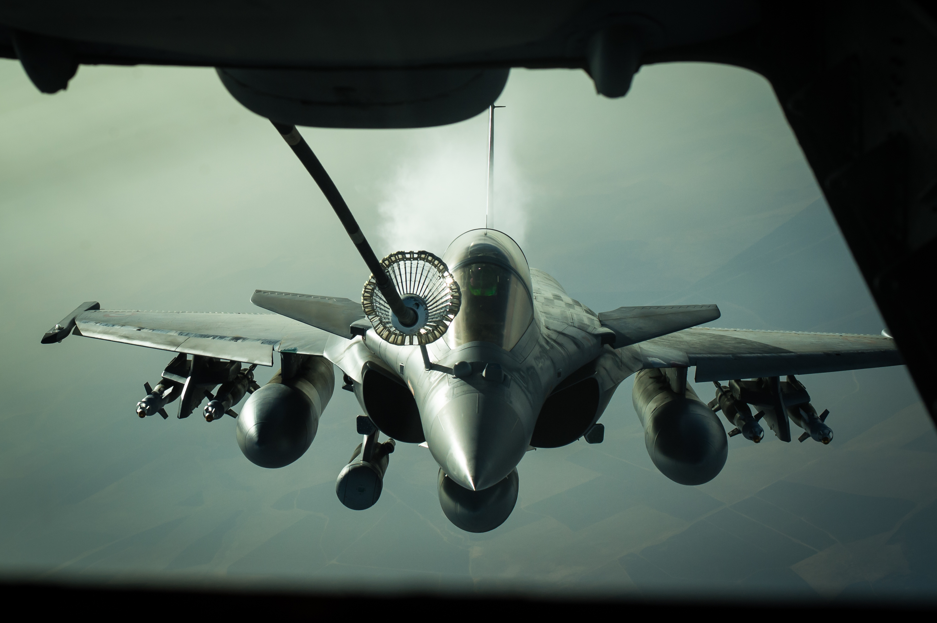 A French Dassault Rafale receives fuel from a KC-10 near Iraq, Oct. 26, 2016. The Dassault Rafale is a twin-engine, multi-role fighter equipped with diverse weapons to ensure its success as a omnirole aircraft. The Rafale has flown in combat missions in several countries including Afghanistan, Libya, Syria and now it's supporting the liberation of Mosul in Iraq. (U.S. Air Force photo by Senior Airman Tyler Woodward)